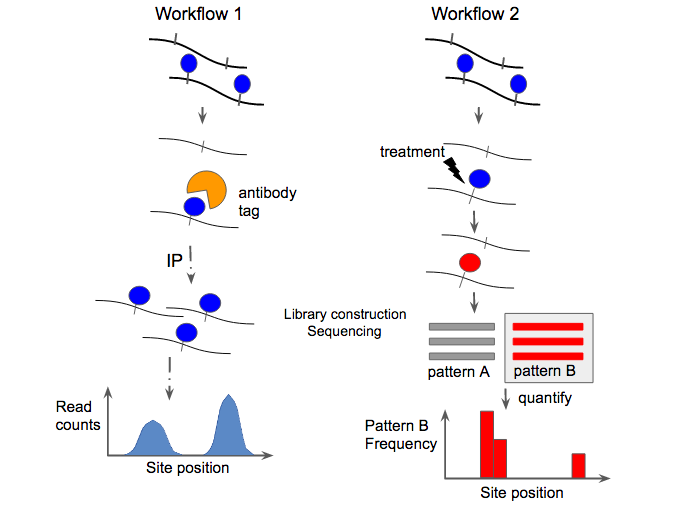 Epitranscriptomics workflow